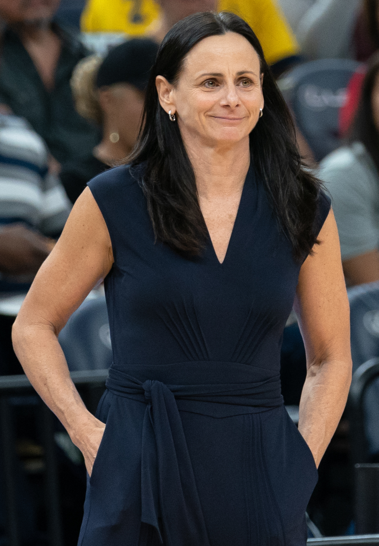 Phoenix Mercury coach Sandy Brondello during a game against the Minnesota Lynx